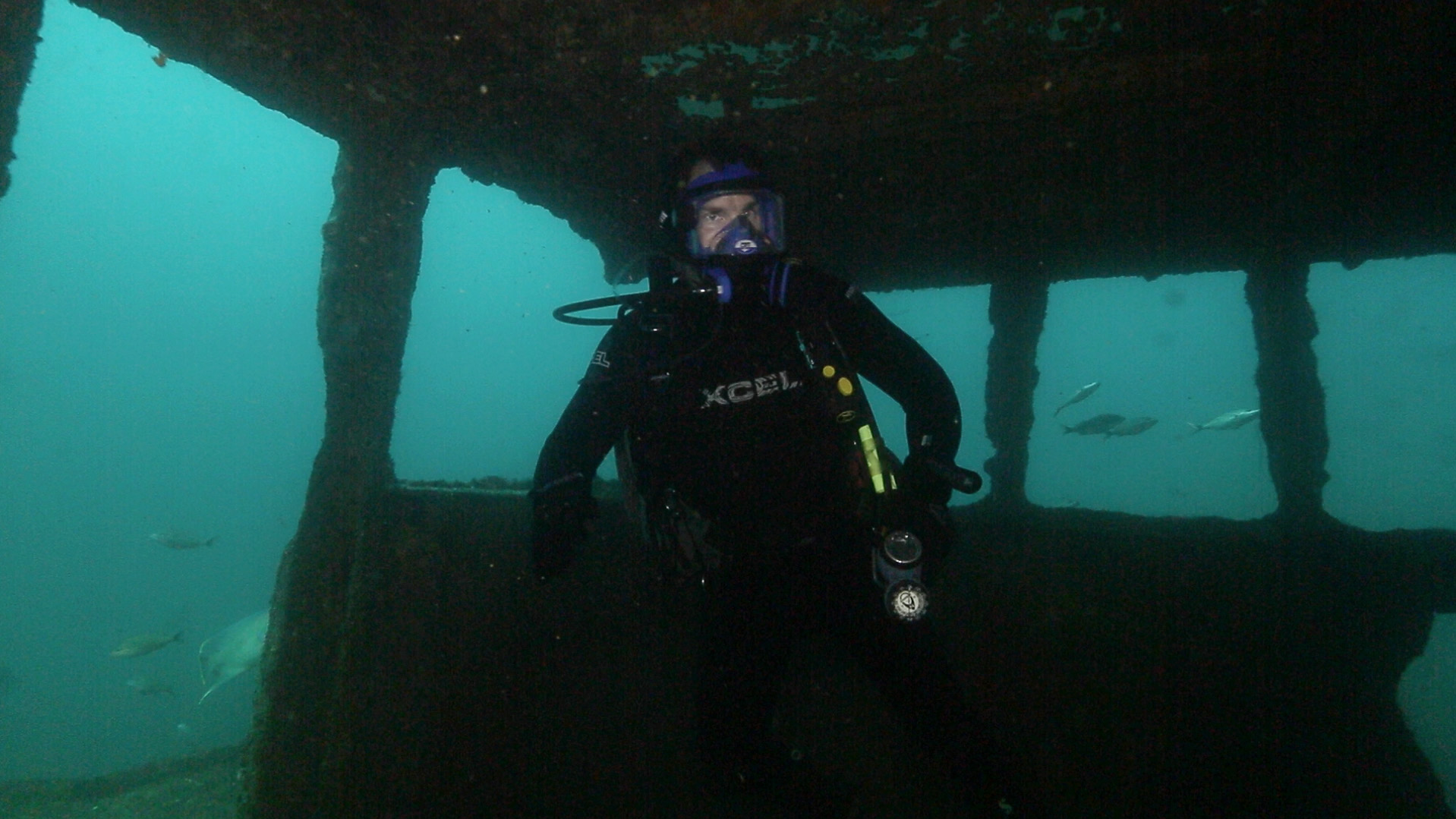 U.S. Border Patrol BORSTAR divers Carl Newmayer surveys the bridge of sunken ship "Black Bart" off the coast of Panama City, Fla., May 26, 2016. The "Black Bart," a 185 foot oilfield supply vessel, was sunken as an artificial reef in 1993 and rests upright at a depth of 85 feet and is a common site for recreational divers and dive training exercises. CBP Photo by Glenn Fawcett